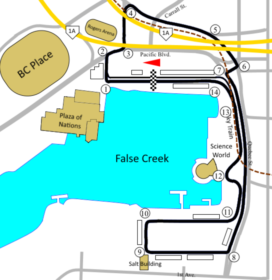 Layout used at the Molson Indy Vancouver from 1998-2004.